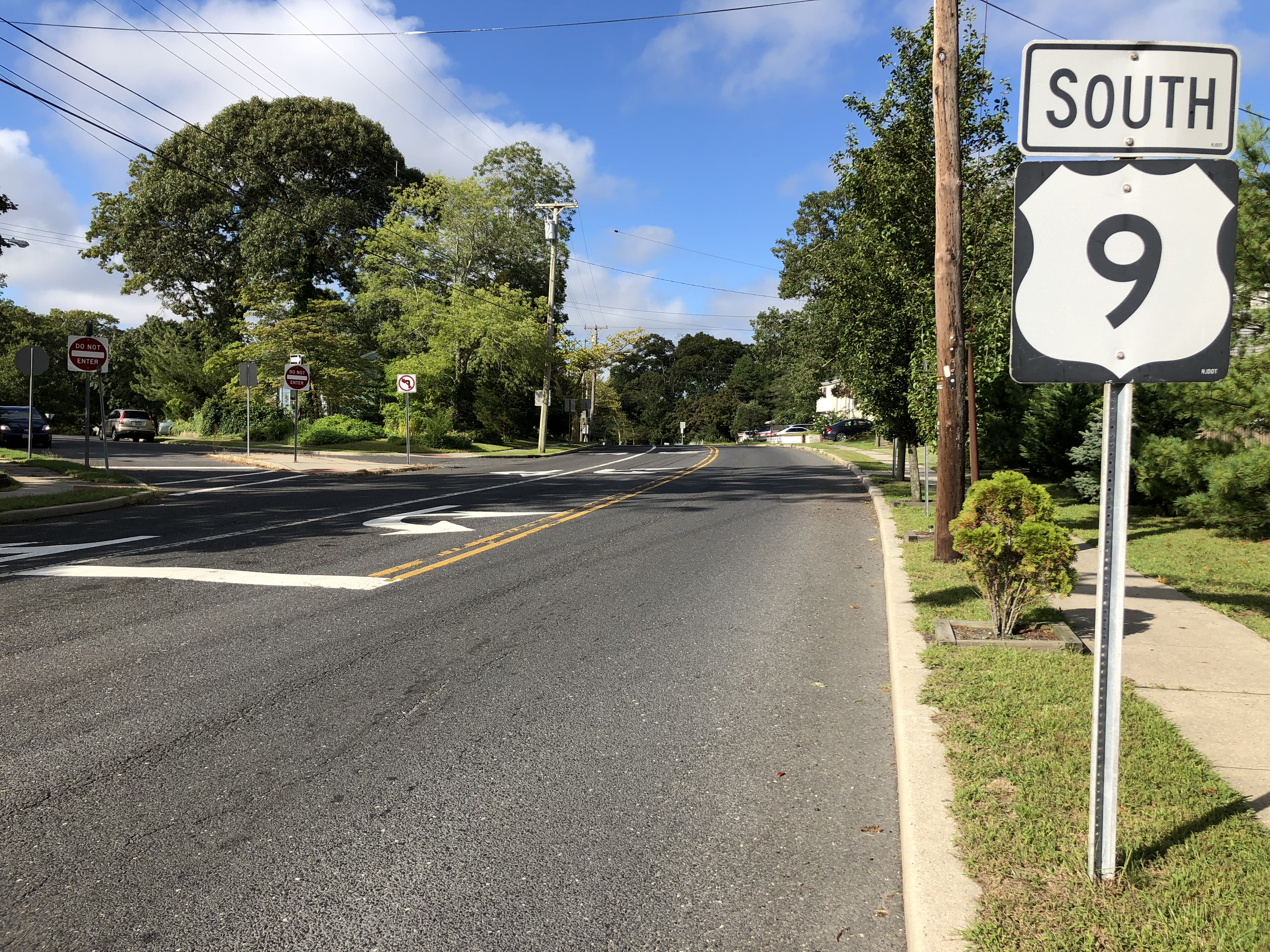 View south along U.S. Route 9 (New Road) just south of Atlantic County Route 634 (Pitney Road) and Atlantic County Route 651 (Mill Road) in Absecon, Atlantic County, New Jersey